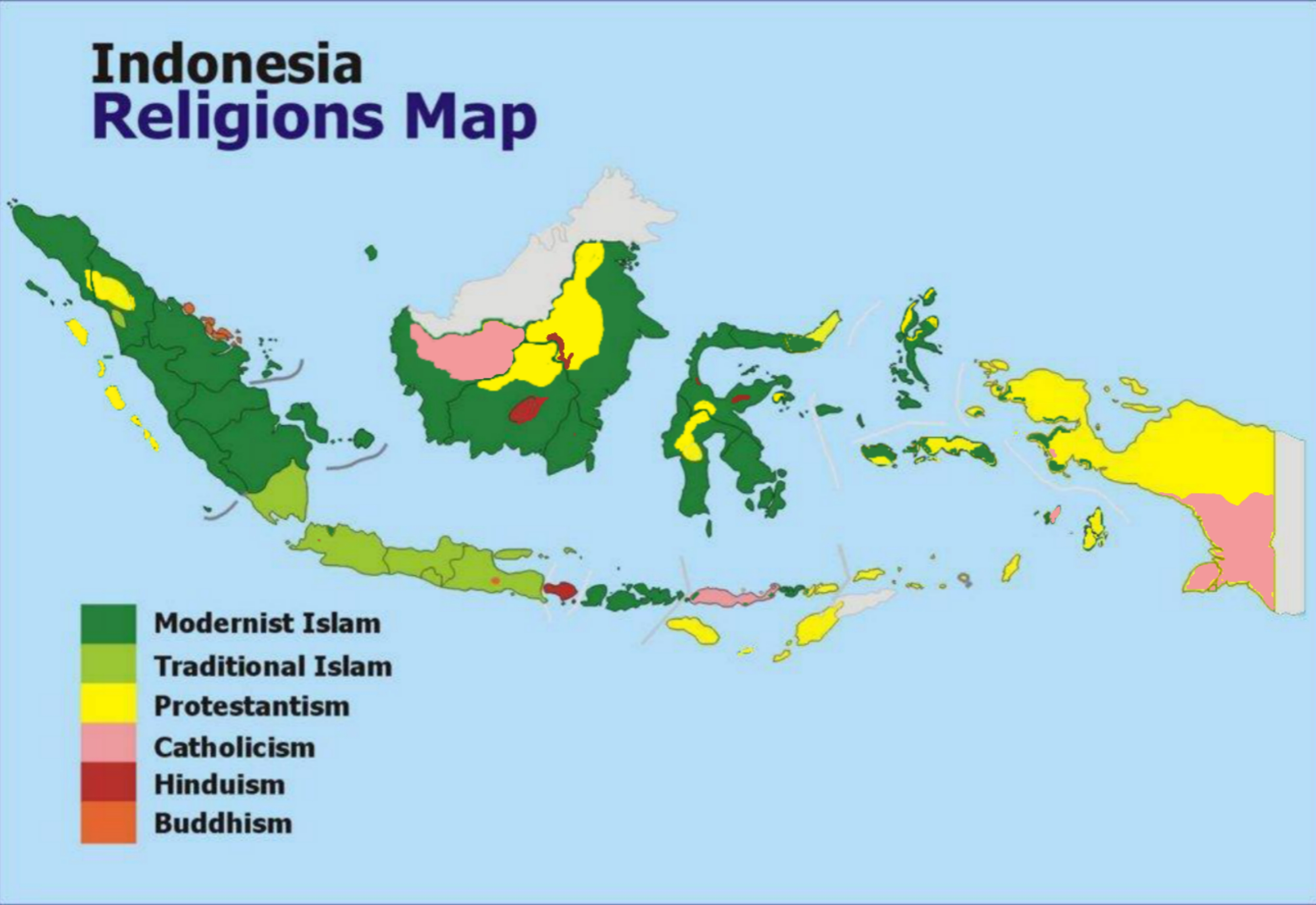 Religion in indonesia, updated map of indonesia. south maluku island added as christian majority area, as per other article on wikipedia.